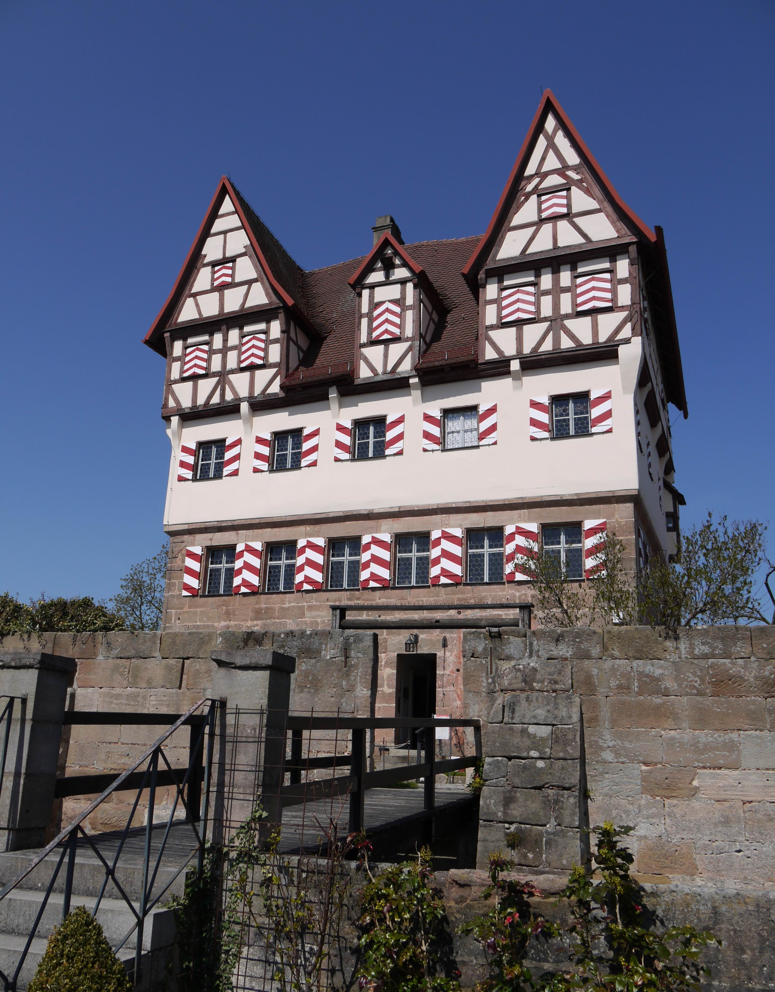 Castle Neunhof, Nuremberg